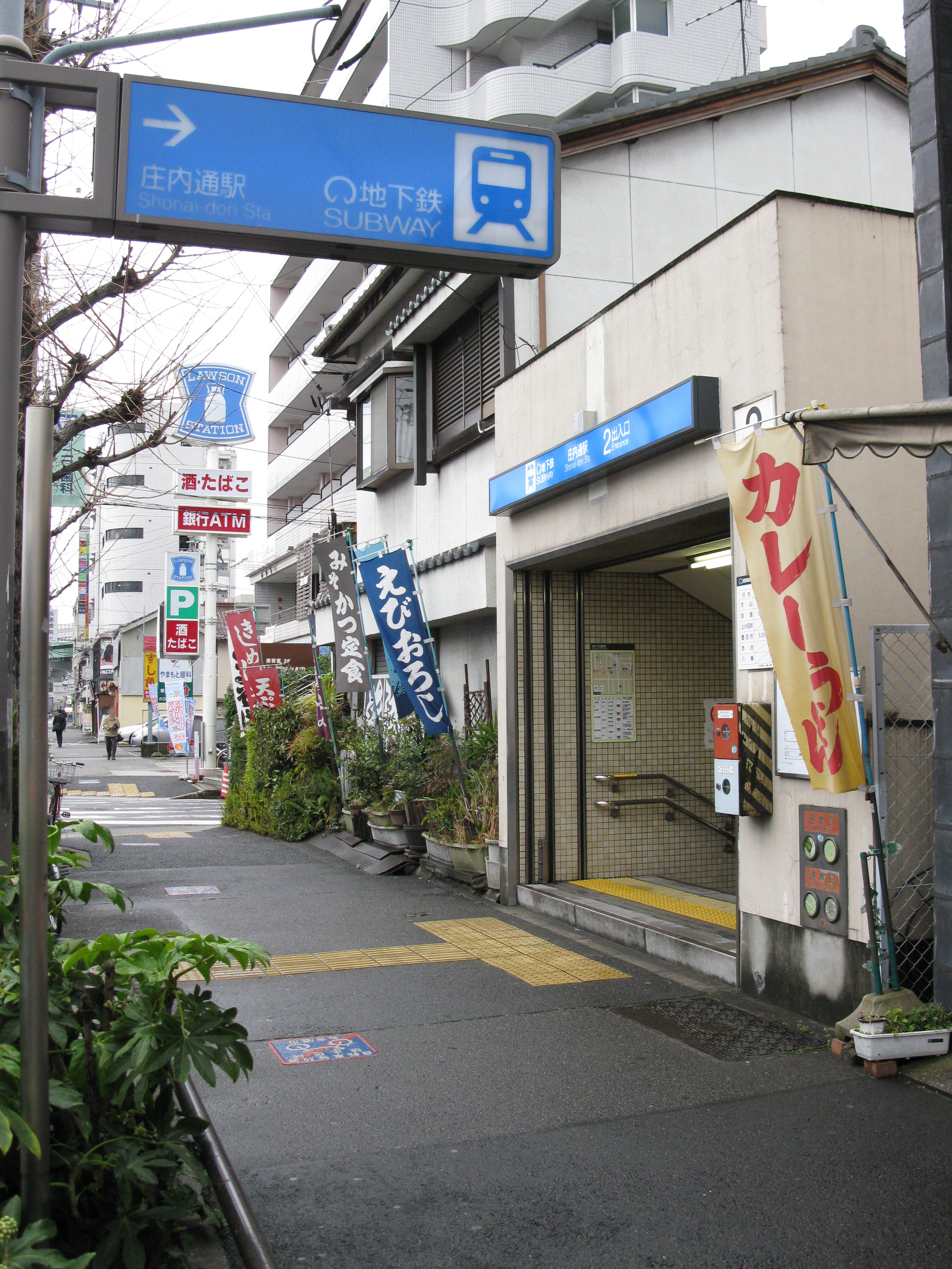 Shōnai-dōri Station no.2 entrance (Nagoya Municipal Subway Tsurumai Line)